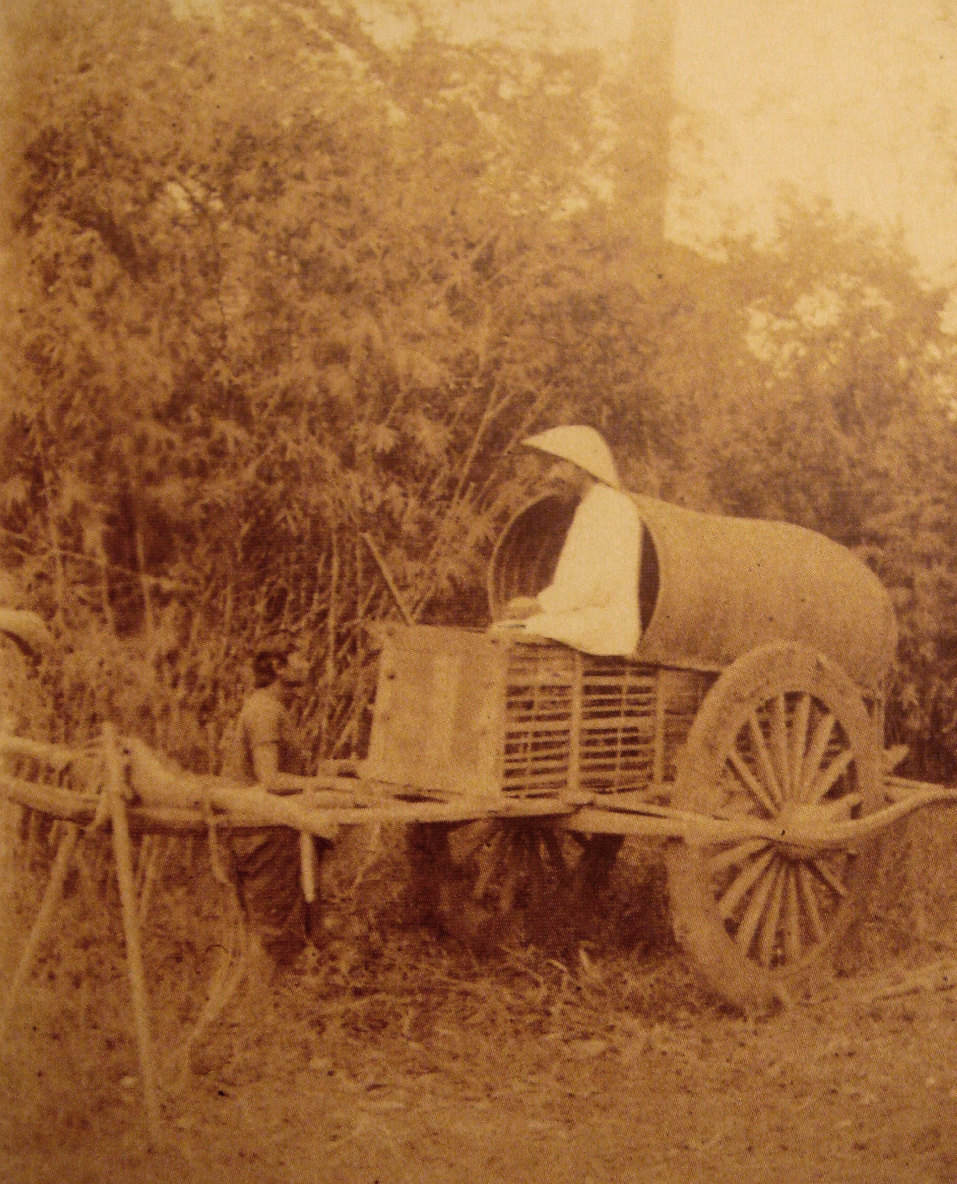 Auguste_Pavis_Cambodia_1879